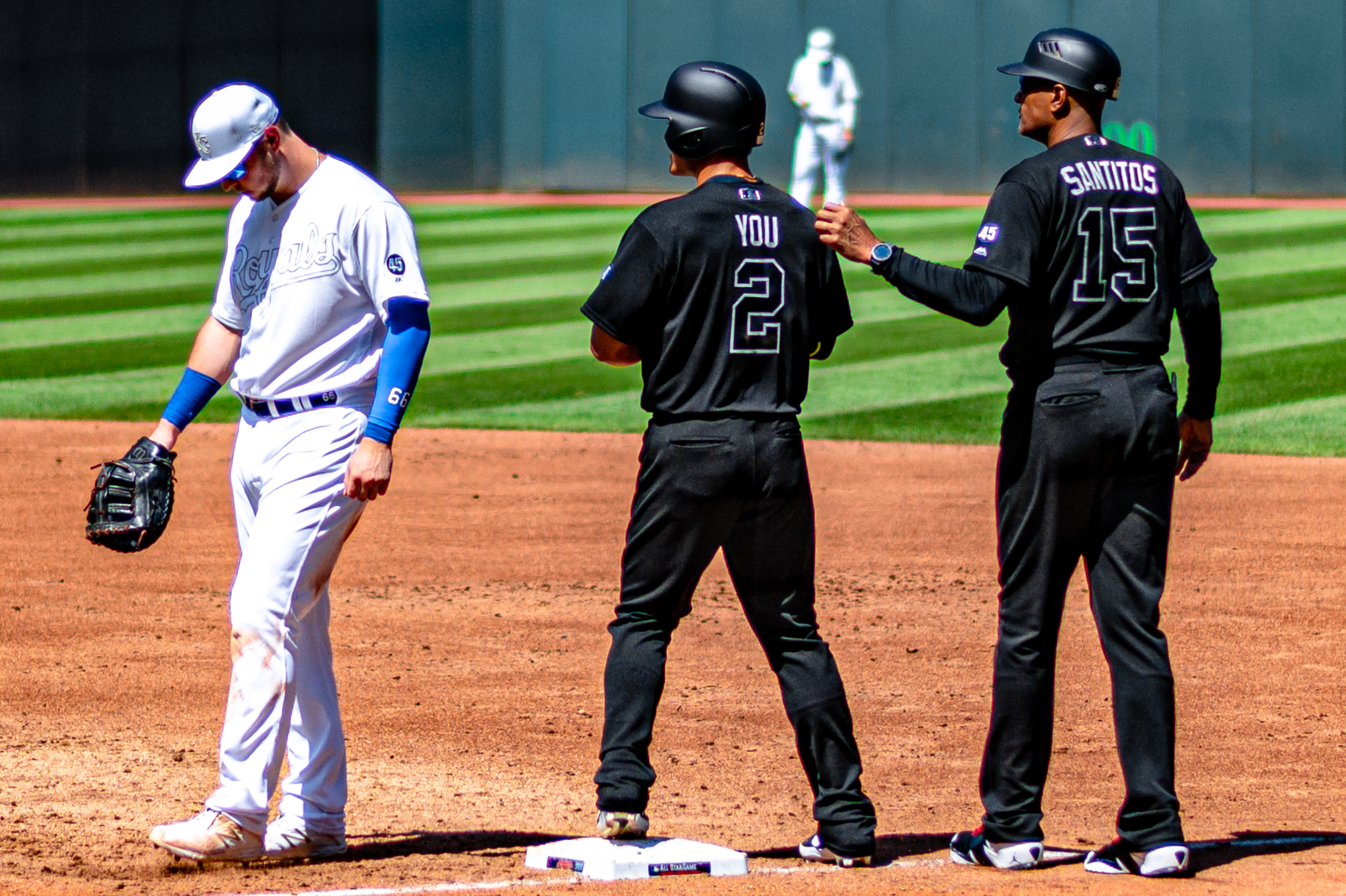 Ryan O'Hearn of the Kansas City Royals plays first base while Yu Chang and Sandy Alomar, Jr. of the Cleveland Indians confer during a 2019 game at Progressive Field in Cleveland